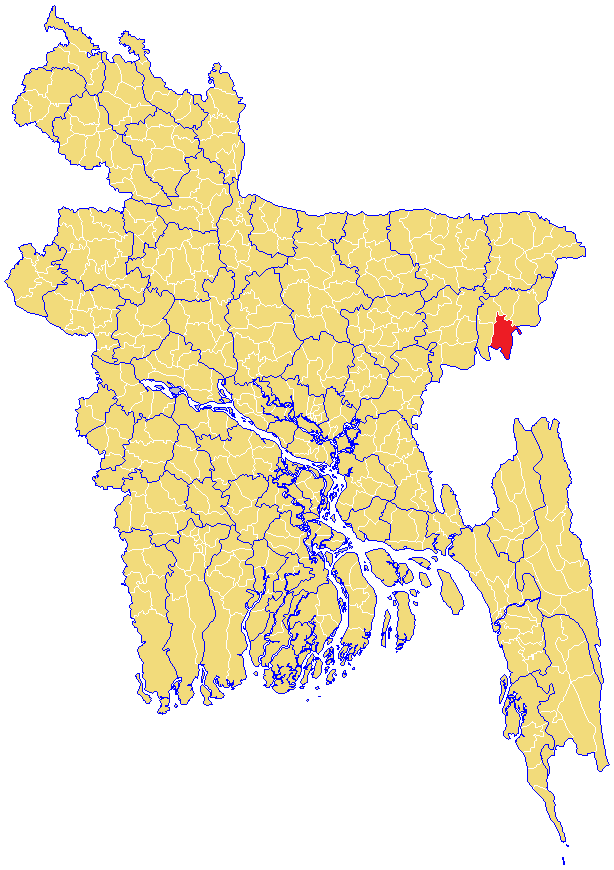 Map of Kamalganj Upazila in Maulvibazar District, Sylhet Division, Bangladesh